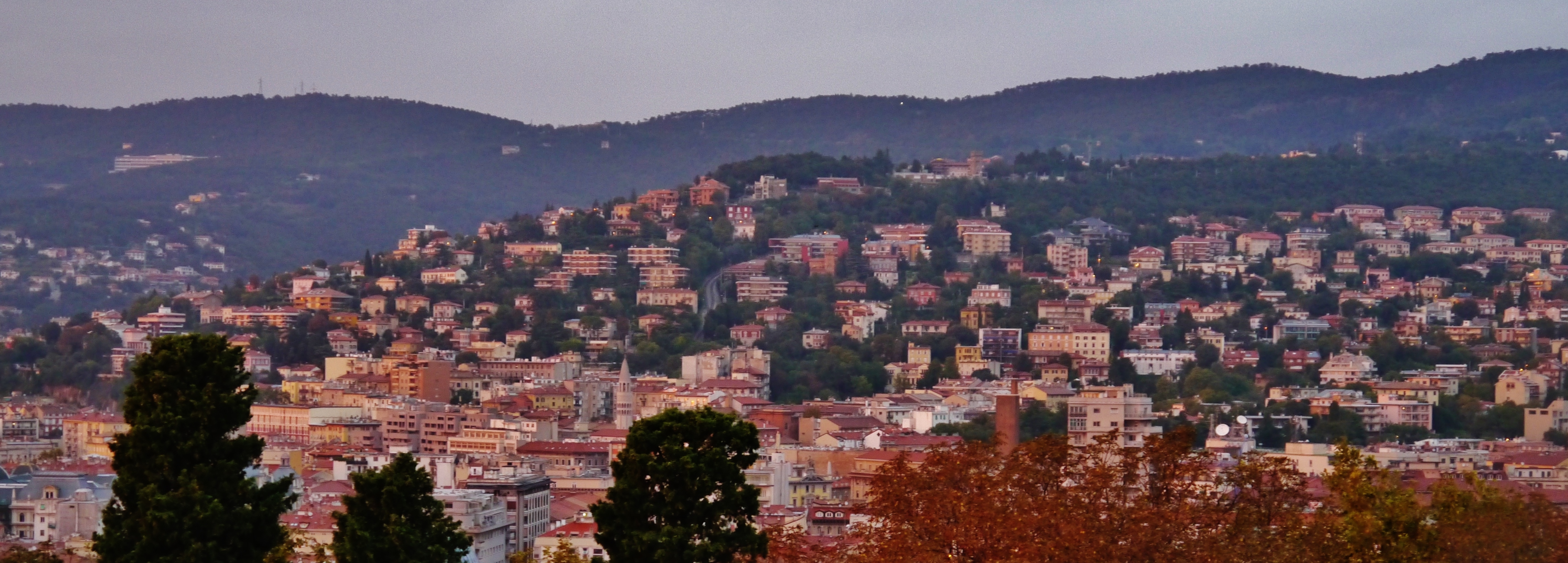 View from the Castle Mountain to Trieste, Friuli-Venezia Giulia, Italy